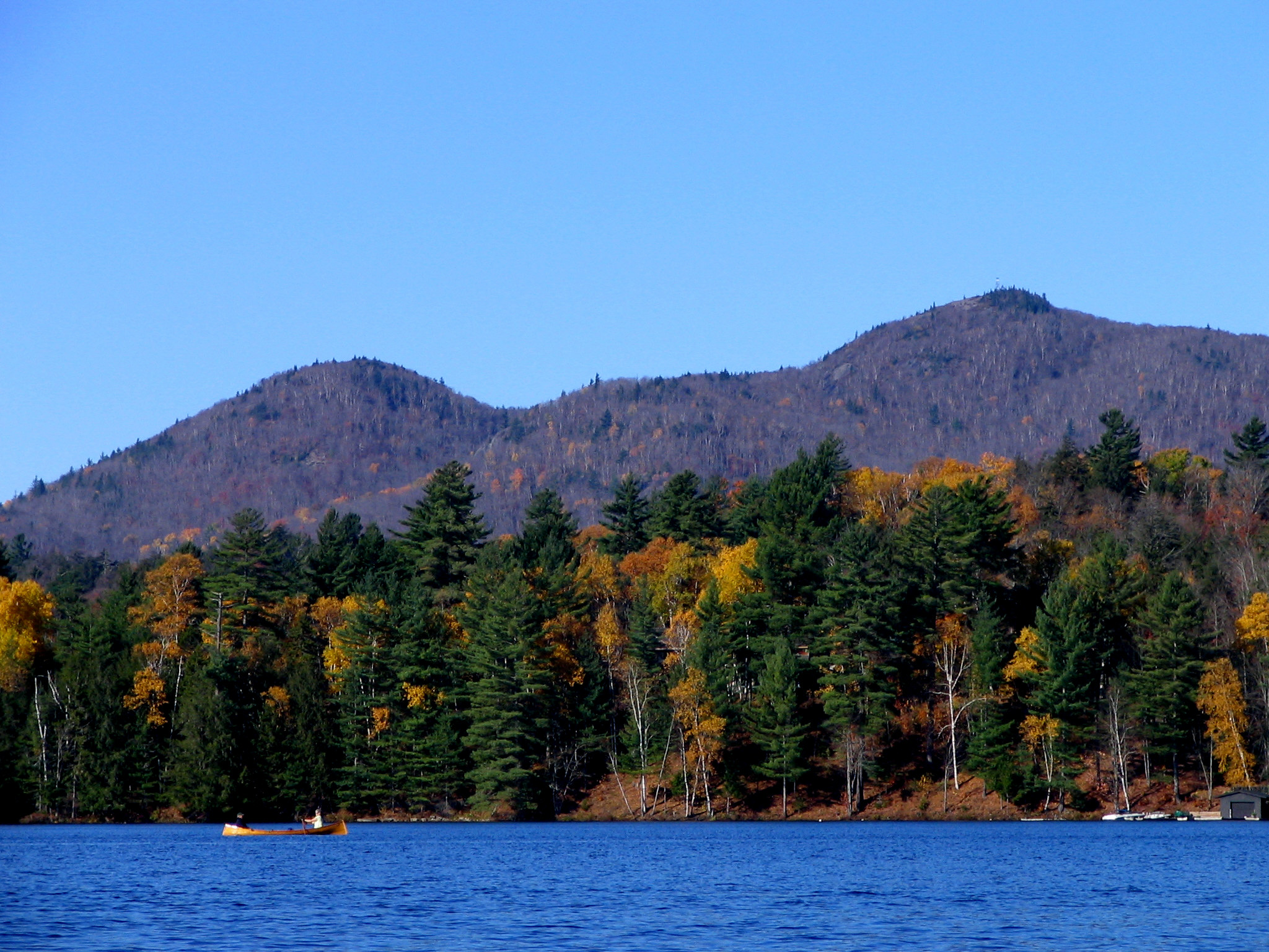 An Adirondack guideboat on Upper St. Regis Lake with St. Regis Mountain behind. Taken by User:Mwanner, 22 October, 2007.